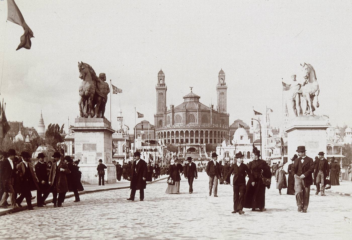 Palais du Trocadéro, Exposition Universal Paris 1900. - Visitors.